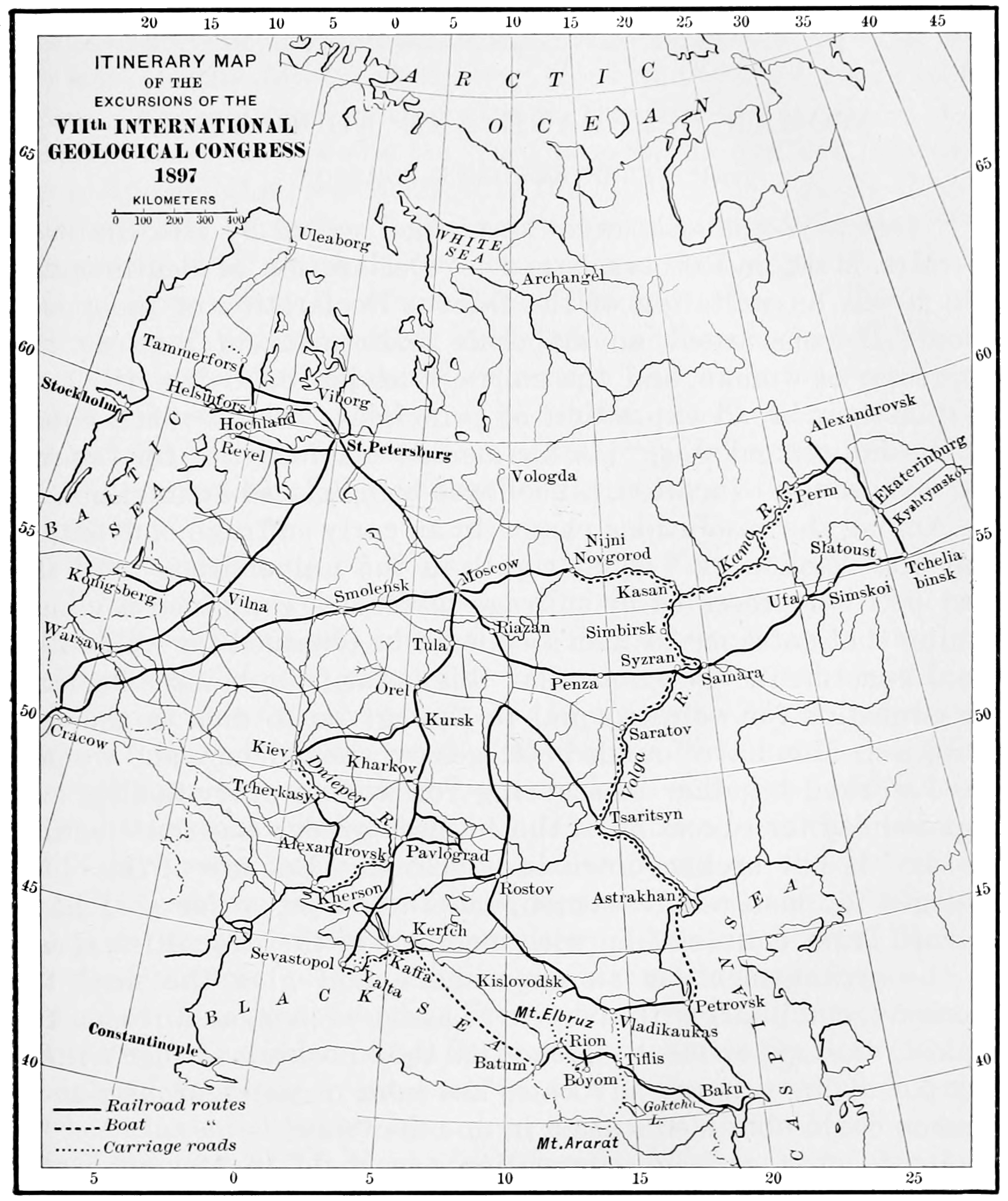 Itinerary map of the seventh international geological congress 1897